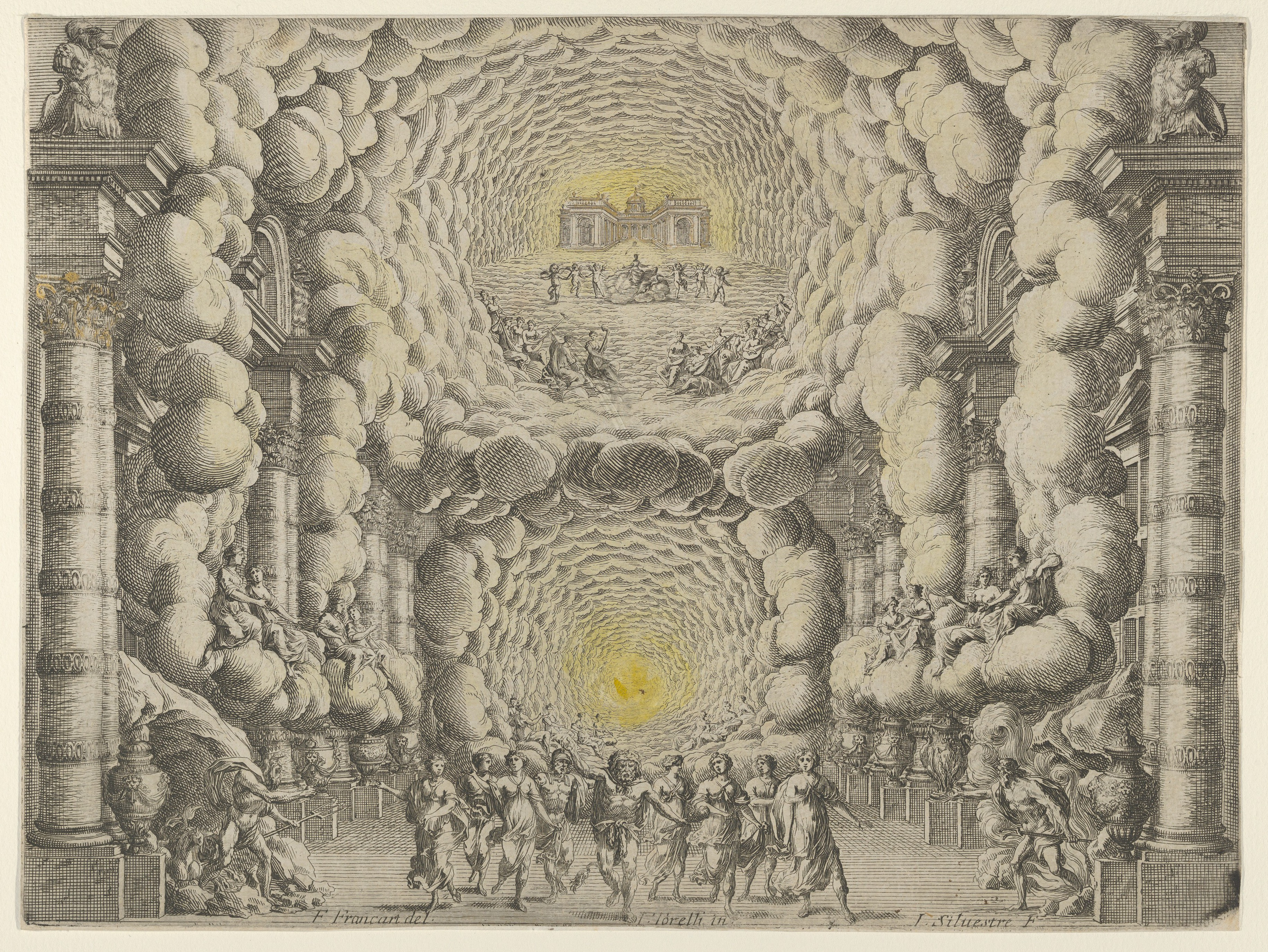 Print, Fete, Ornament & Architecture; Prints